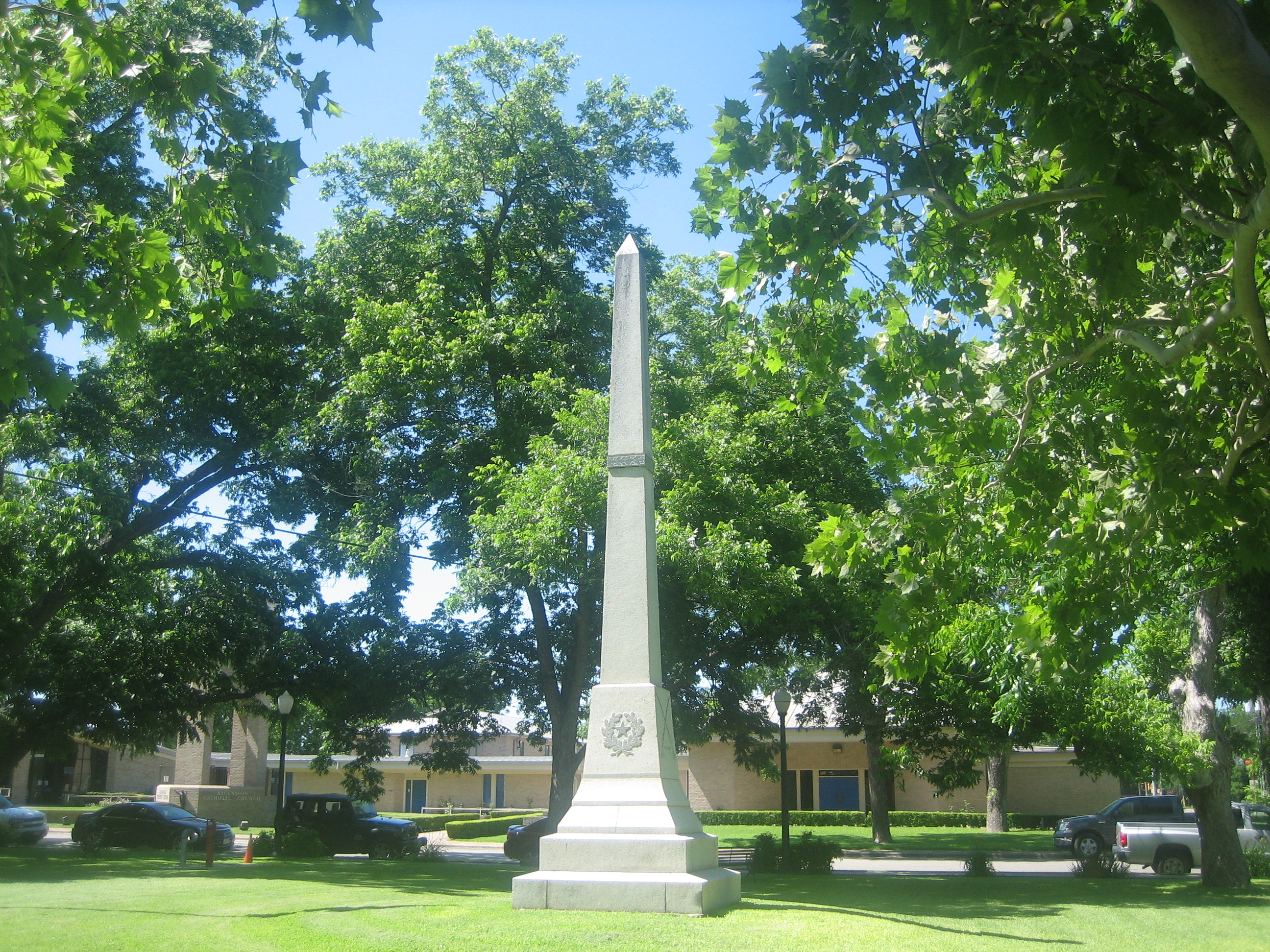 I took photo on May 19, 2009.Billy Hathorn (talk) 02:24, 31 May 2009 (UTC)